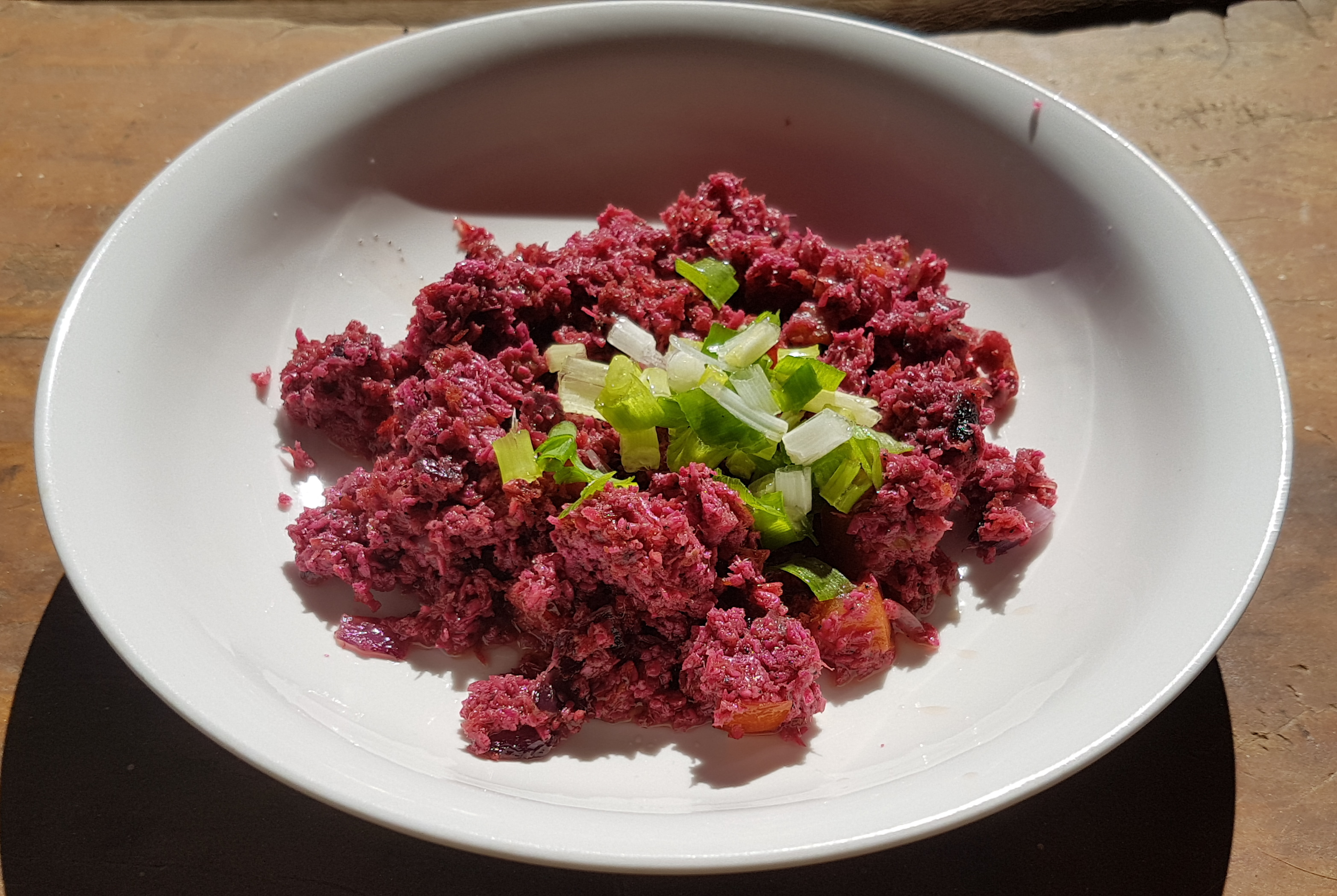 Ginisang alamang (sauteed shrimp paste) - Philippines